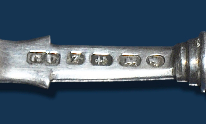 Silver Spoon from 1899, makers mark GU = George Unite, Caroline Street, Birmingham, England.